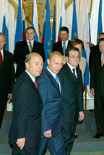 CONSTANTINE PALACE, STRELNA. Russian President Vladimir Putin, Greek Prime Minister Konstandinos Simitis and President of the European Commission Romano Prodi (right) after the photo session of participants in Russia - EU Summit. From left to right background: Swedish Prime Minister Goran Persson, Russian Prime Minister Mikhail Kasyanov, Danish Prime Minister Anders Fogh Rasmussen, President of Finland Tarja Halonen and German Chancellor Gerhard Schroeder.